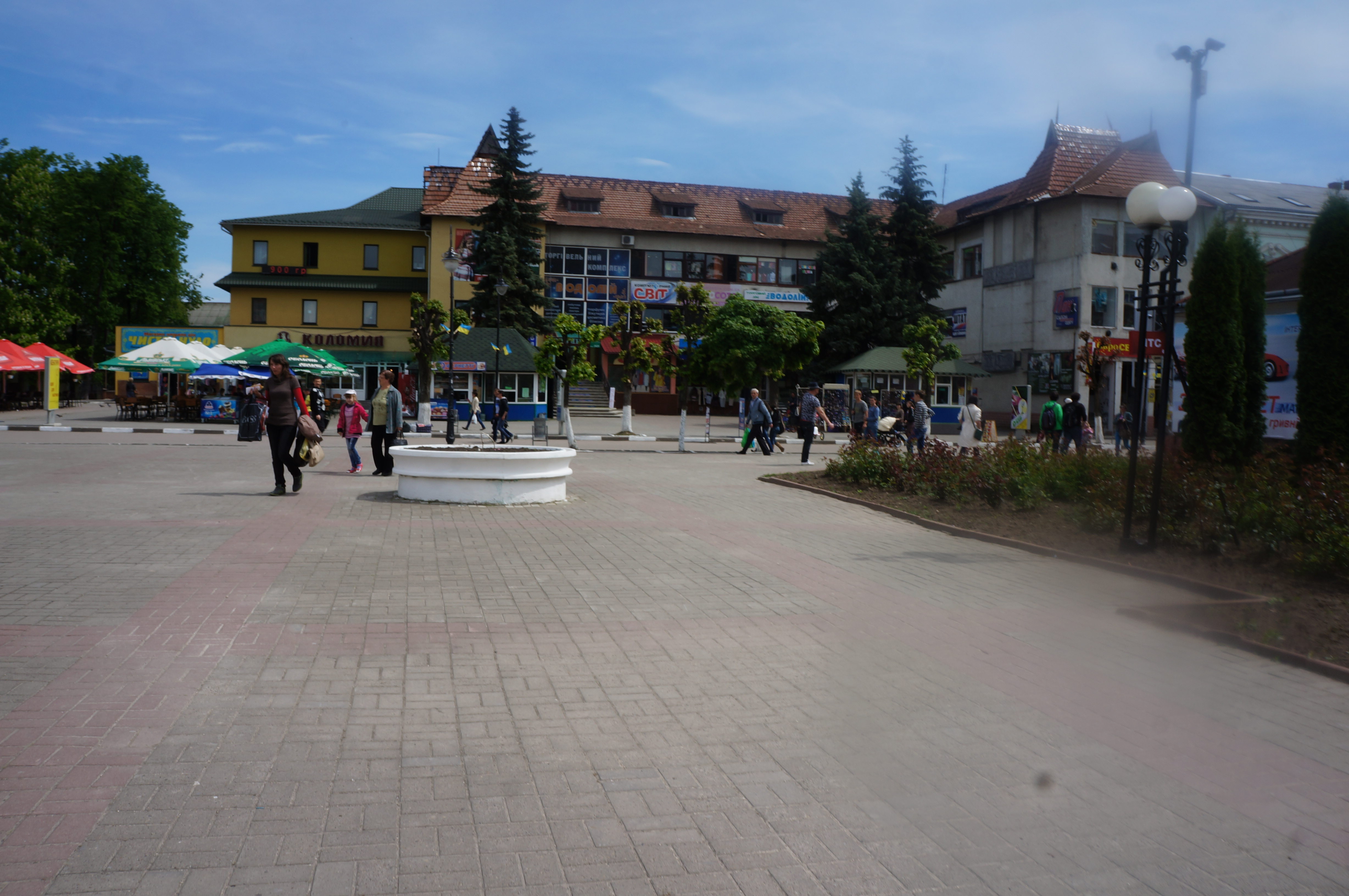 Central part of Kolomyja